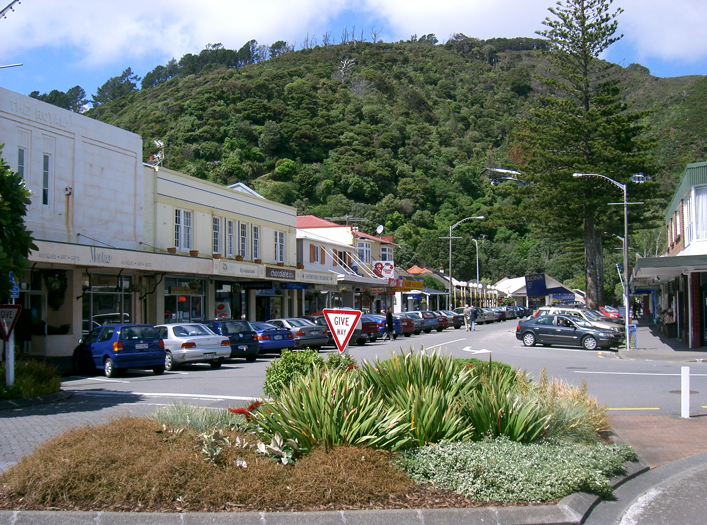 Rimu Street in Eastbourne, New Zealand.